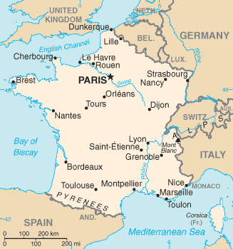 A map of France, showing major cities.